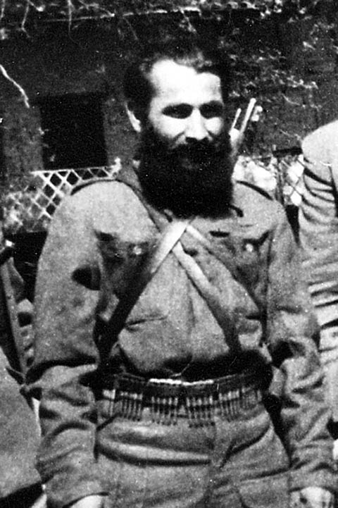 Greek guerrilla commander Yannis Alexandrou (Diamantis)